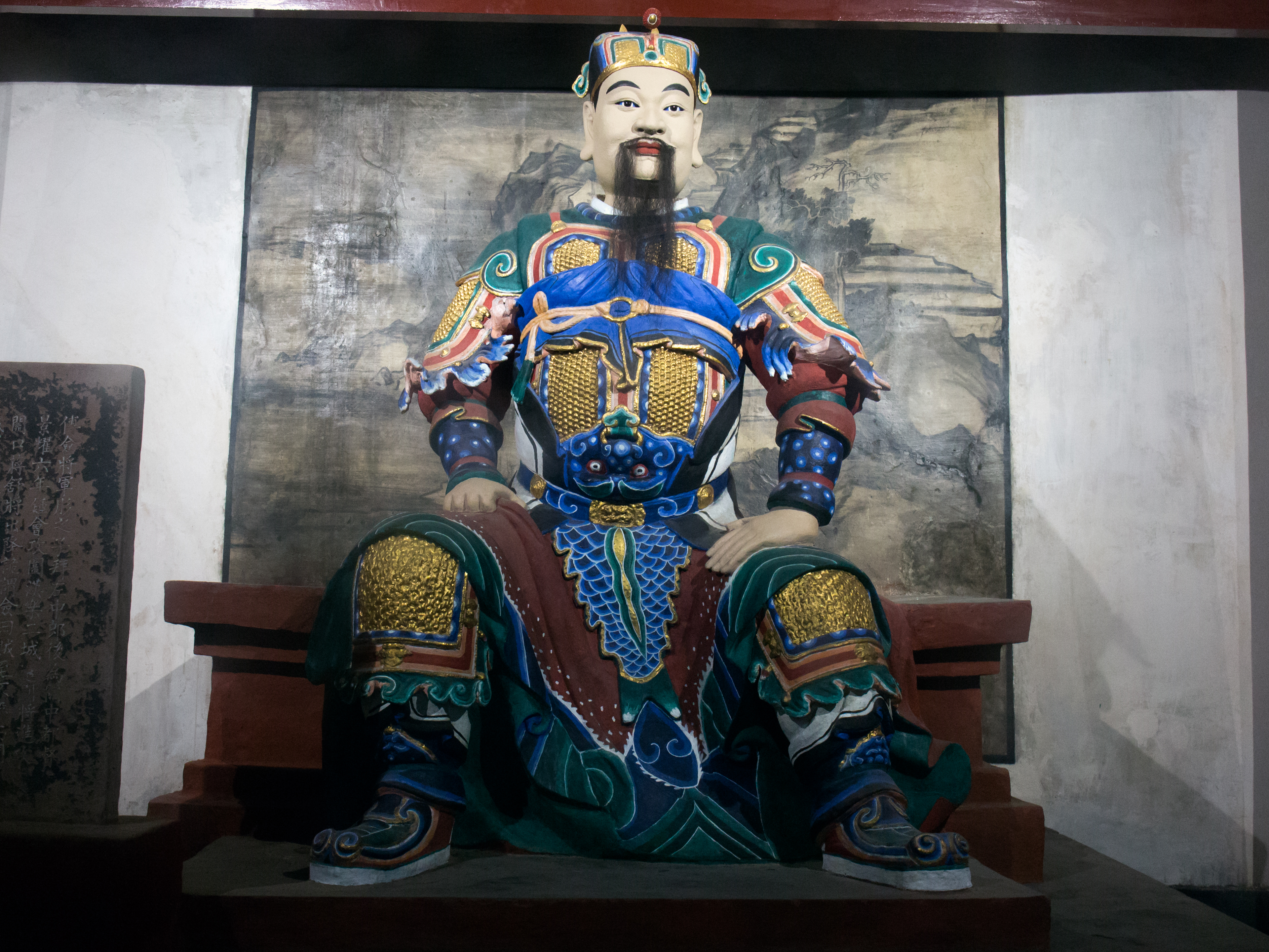 Fu Qian (傅佥)